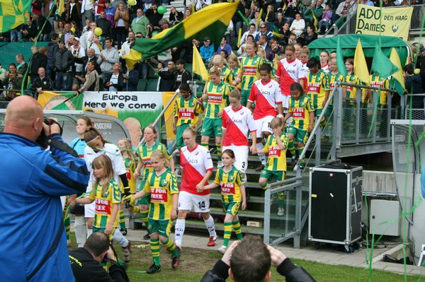 ADO Dames 2010/2011